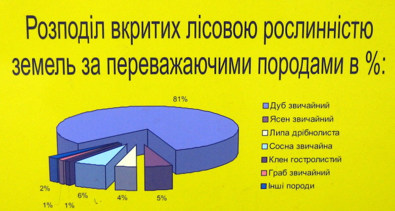 Cold Ravine